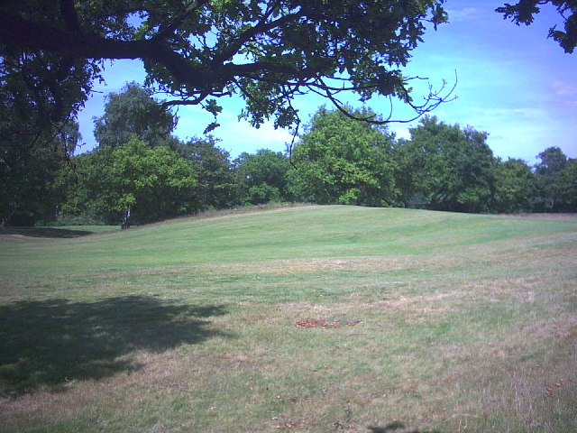 West end of Caesar's Camp, Wimbledon Common. Iron age hill fort. It's not terribly distinct.